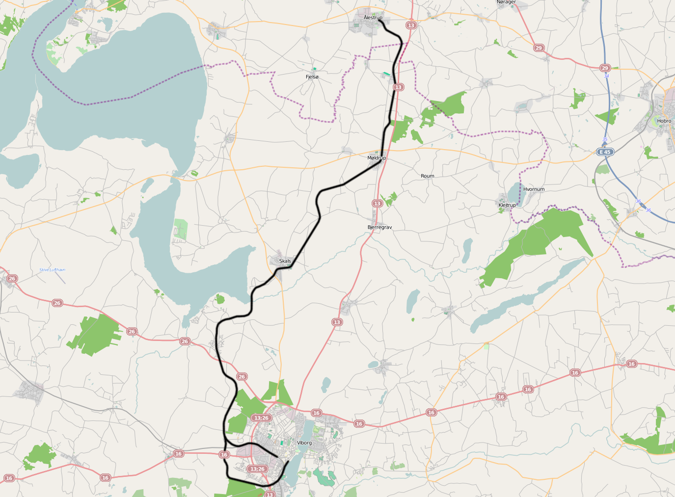 Railway line Viborg - Ålestrup